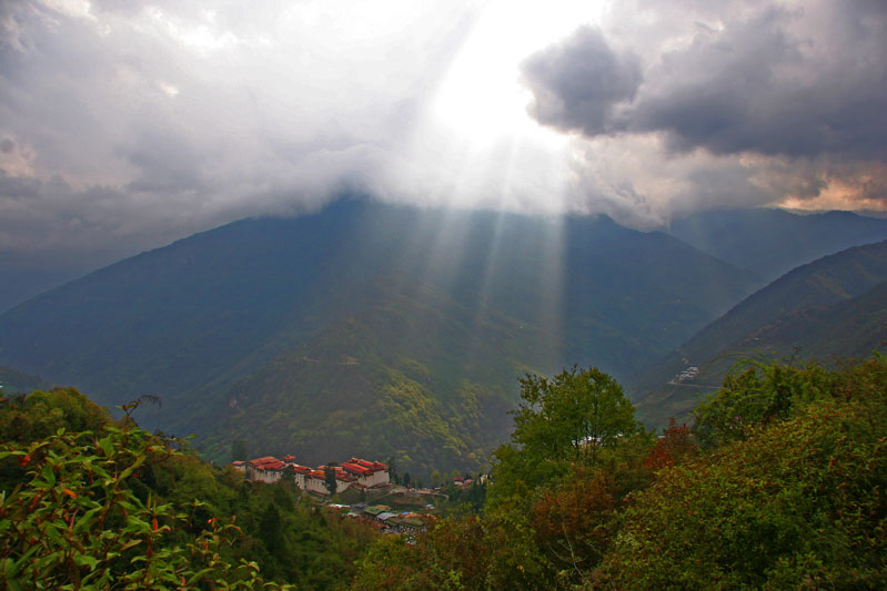 Crossing the Black Mountains which separate western and central Bhutan, you'll enter a part of the country which until the 1970's was only reached by mule and foot trails. The mountain road passes through deciduous forests and at the second pass, Pele La (3300m), the entire area is blanketed by high altitude dwarf bamboo. About five miles from Tongsa, the road winds around a cliff and takes a sharp turn to the left. The view is one of the most beautiful sights in all Bhutan and one from which you will never tire. Sloping down the contour of a ridge stands the many-leveled Tongsa Dzong , built in 1648. Tongsa is the biggest dzong in Bhutan. It is located at a very strategic position. The view from the dzong extends for many kilometers and in former times nothing could escape the vigilance of its watchmen. Furthermore, the dzong is built in such a way that in the old days, no matter what direction a traveler came from, he/she was obliged to pass by the Dzong. This helped to augment its importance as it thus had complete control over all east-west traffic. That's why Tongsa Dzong is sometimes called "The Door to Eastern Bhutan".